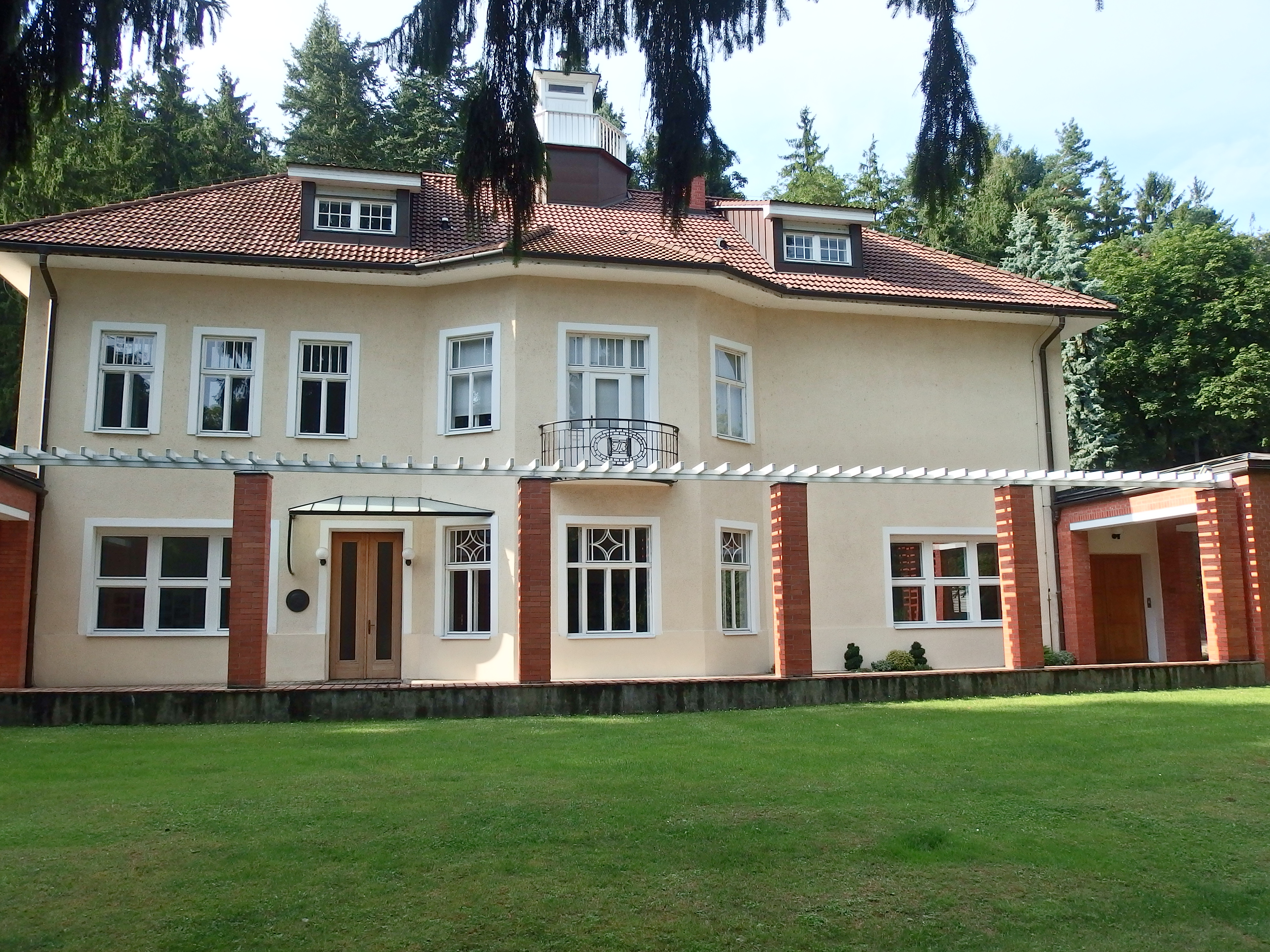 Zlín, Czech Republic, villa of Tomáš Baťa.